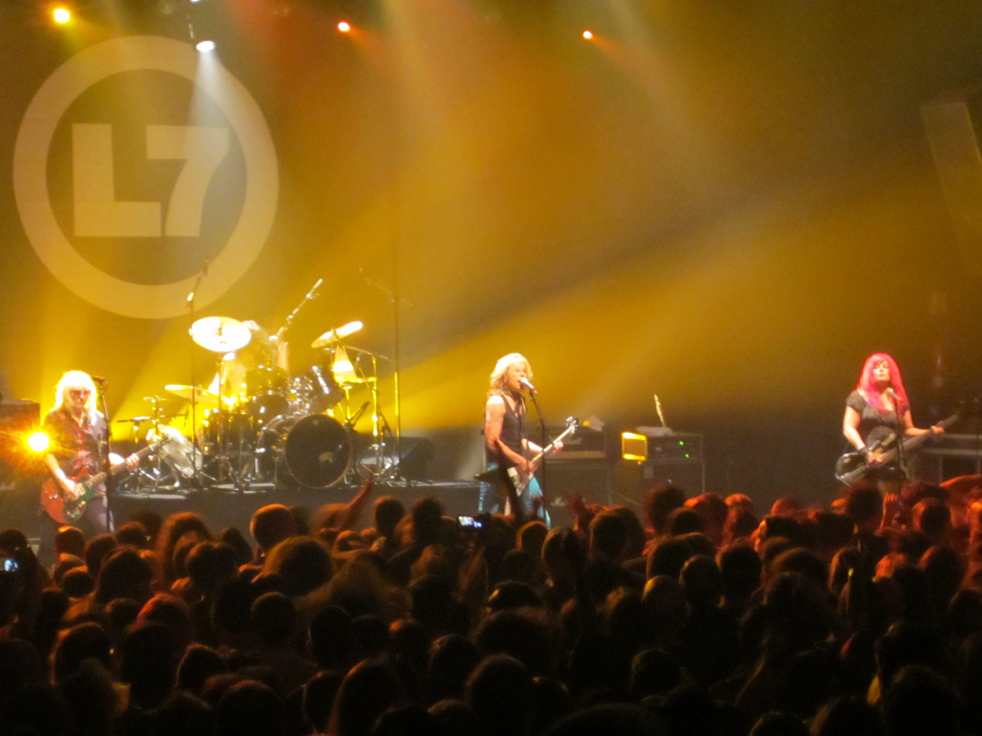 L7 performing in Paris, France (Le Bataclan) 17 june 2015